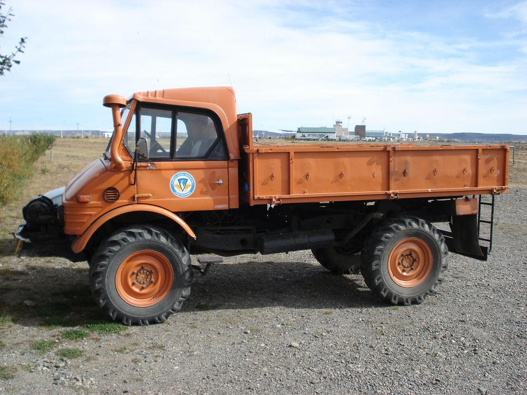 Antarctic Unimog vehicle from Argentinian Air Force in Río Gallegos, Argentina.